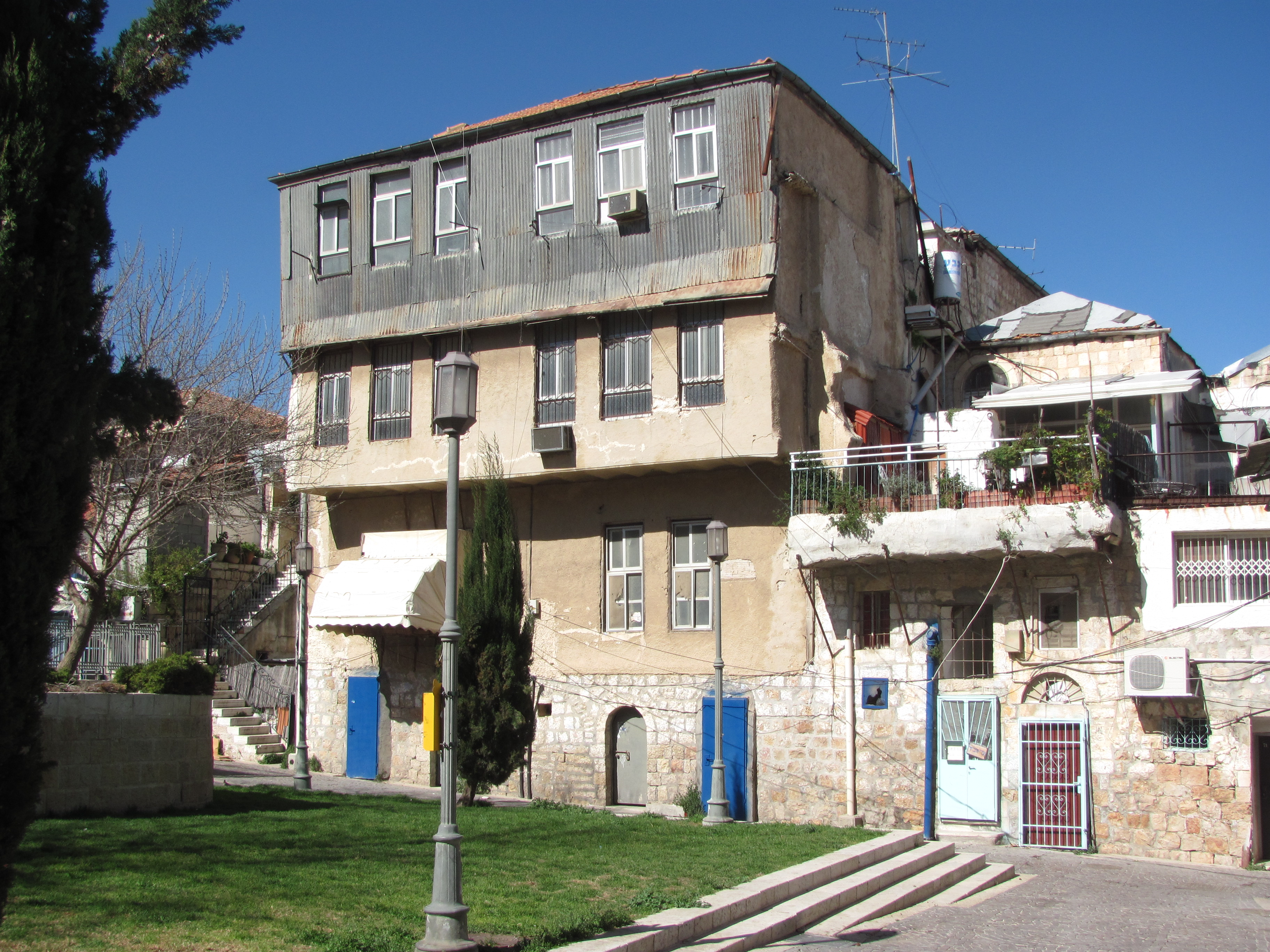 Rebecca Levy House in Even Yisrael neighborhood of Jerusalem, Israel.